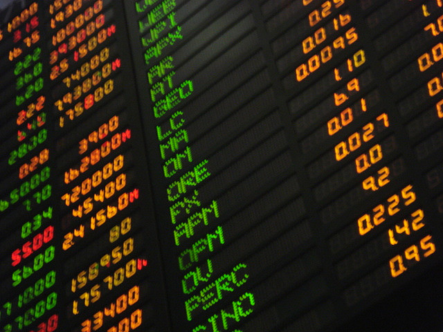 Phillippine stock market board